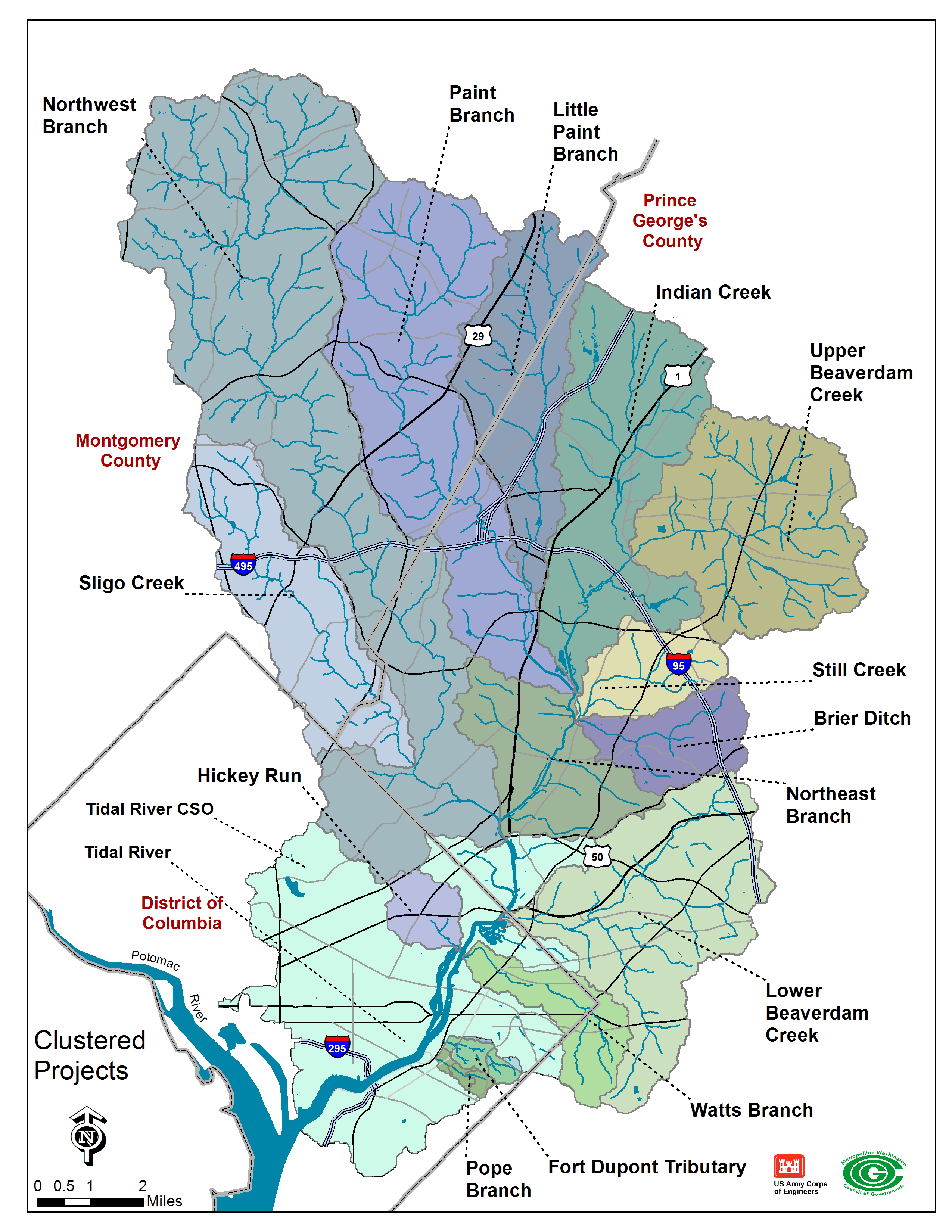 A U.S. Army Corps of Engineers map of the Anacostica River Watershed, highlighting major tributaries and their drainage basins.